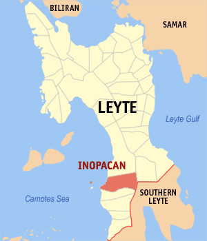 Map of Leyte showing the location of Inopacan